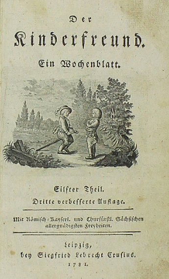 Illustrated front page of the German children's magazine "Der Kinderfreund. Ein Wochenblatt" by Christian Felix Weiße (part 11, 1781).